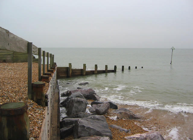 Groyne on Hayling Beach One of the timber groynes protecting the beach against wave erosion. There is an approximately 4 ft difference in height at this point. View by the clubhouse of the Sinah Golf Club